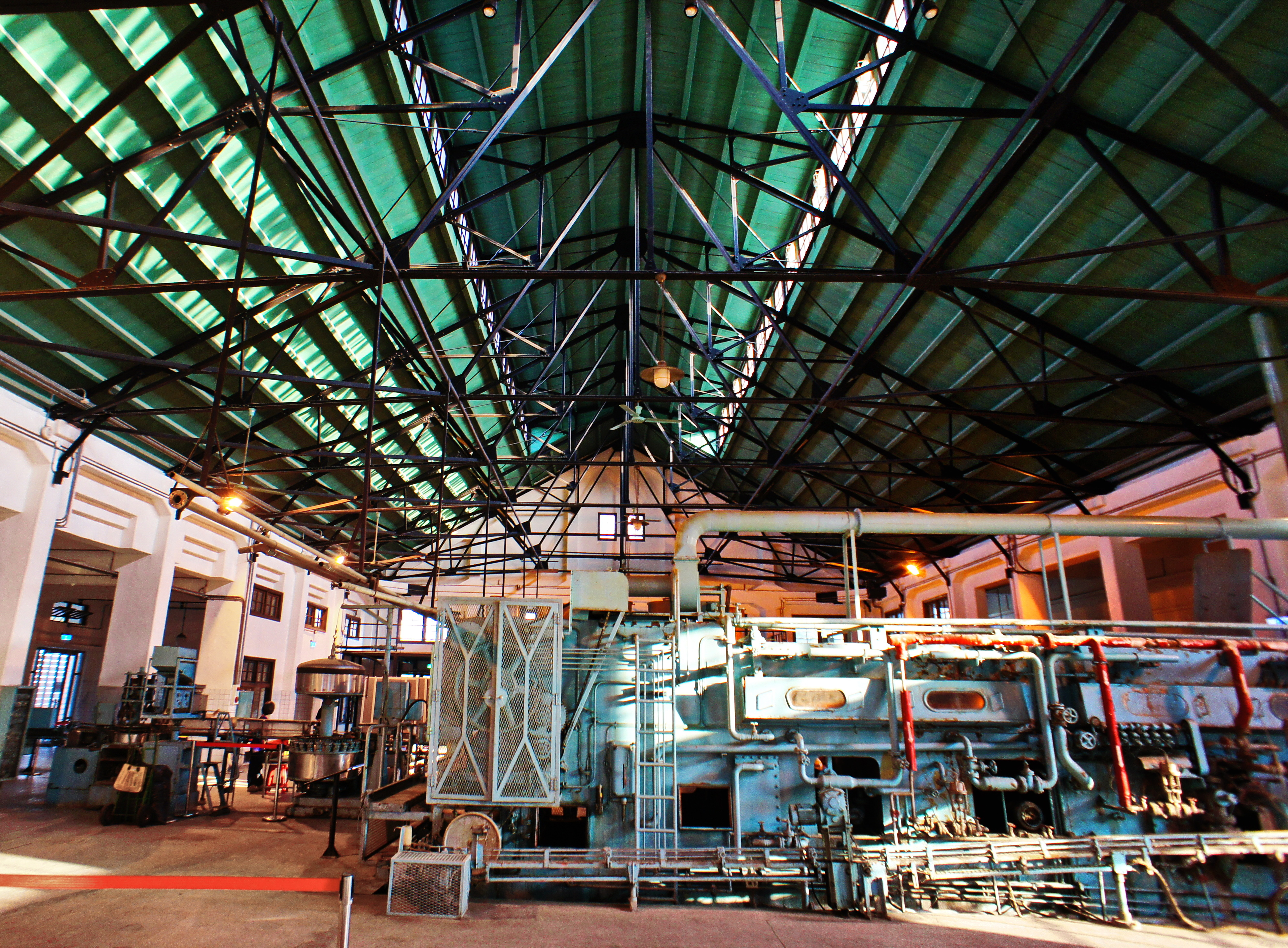 Chiayi Cultural and Creative Industries Park, Former Chiayi Brewery, Chiayi City, Taiwan.